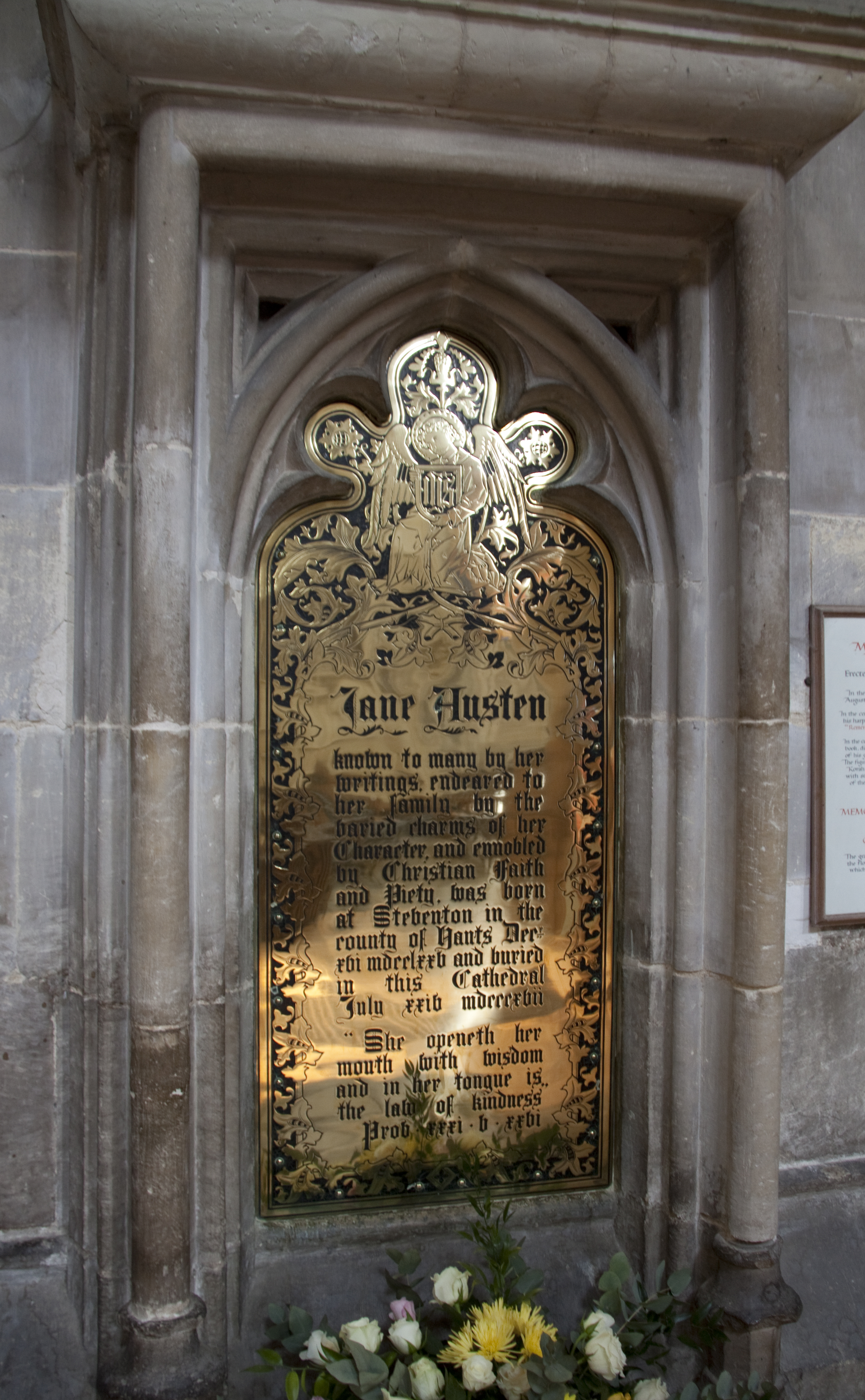 Jane Austin Memorial